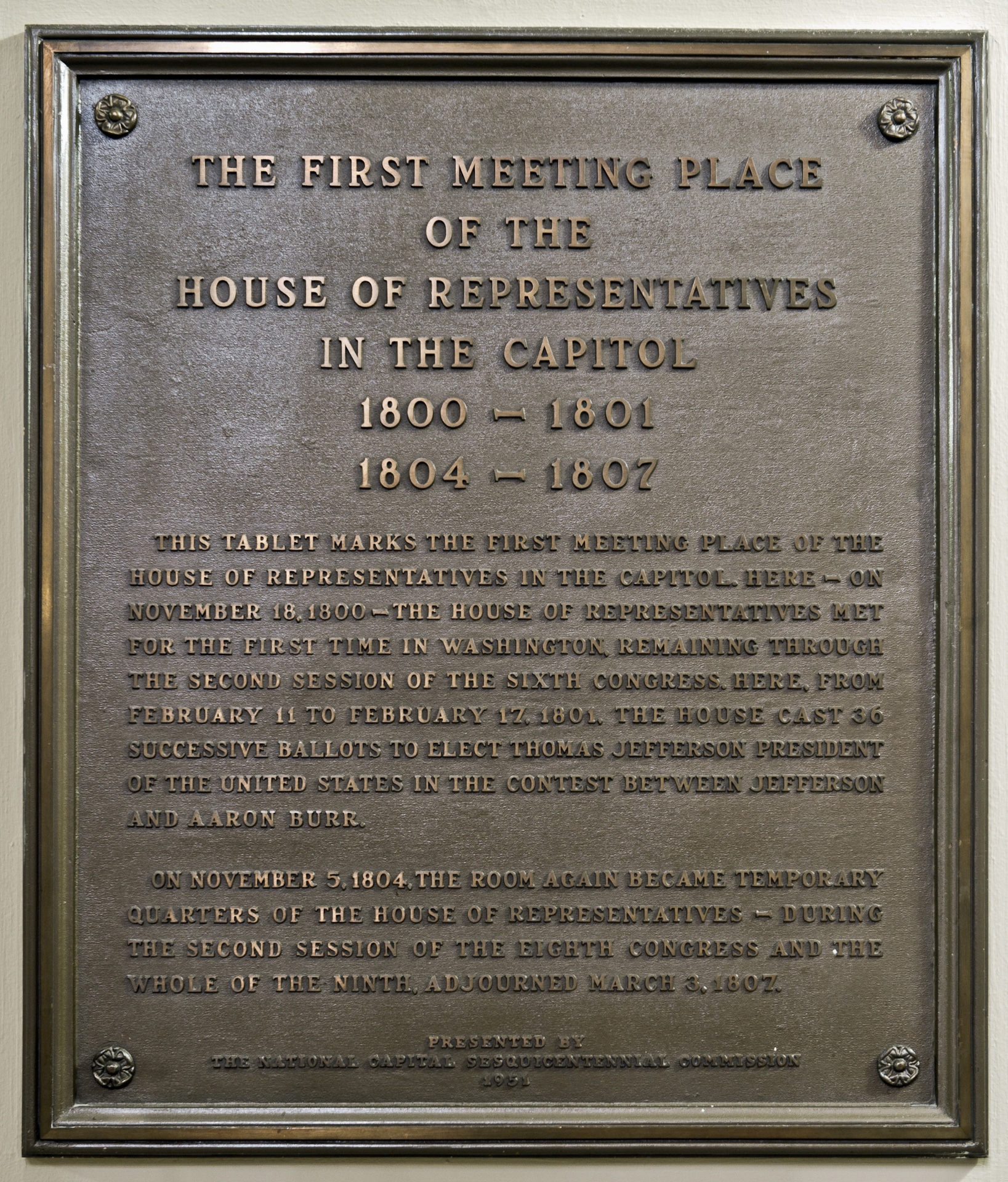 Bronze, 24" x 28" Placed 1952 Outside S-233 Text of the Plaque: THE FIRST MEETING PLACE OF THE HOUSE OF REPRESENTATIVES 1800 - 1801 1804 - 1807 THIS TABLET MARKS THE FIRST MEETING PLACE OF THE HOUSE OF REPRESENTATIVES IN THE CAPITOL. HERE - ON NOVEMBER 18, 1800 - THE HOUSE OF REPRESENTATIVES MET FOR THE FIRST TIME IN WASHINGTON, REMAINING THROUGH THE SECOND SESSION OF THE SIXTH CONGRESS. HERE, FROM FEBRUARY 11 TO FEBRUARY 17, 1801, THE HOUSE CAST 36 SUCCESSIVE BALLOTS TO ELECT THOMAS JEFFERSON PRESIDENT OF THE UNITED STATES IN THE CONTEST BETWEEN JEFFERSON AND AARON BURR. ON NOVEMBER 5, 1804, THE ROOM AGAIN BECAME TEMPORARY QUARTERS OF THE HOUSE OF REPRESENTATIVES - DURING THE SECOND SESSION OF THE EIGHTH CONGRESS AND THE WHOLE OF THE NINTH, ADJOURNED MARCH 3, 1807. PRESENTED BY THE NATIONAL CAPITAL SESQUICENTENNIAL COMMISSION 1951 This official Architect of the Capitol photograph is being made available for educational, scholarly, news or personal purposes (not advertising or any other commercial use). When any of these images is used the photographic credit line should read “Architect of the Capitol.” These images may not be used in any way that would imply endorsement by the Architect of the Capitol or the United States Congress of a product, service or point of view. For more information visit